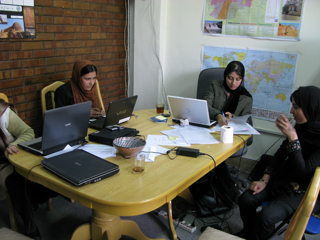 Female students at Kabul University.